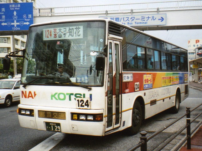 Naha Kotsu (Gin Bus)